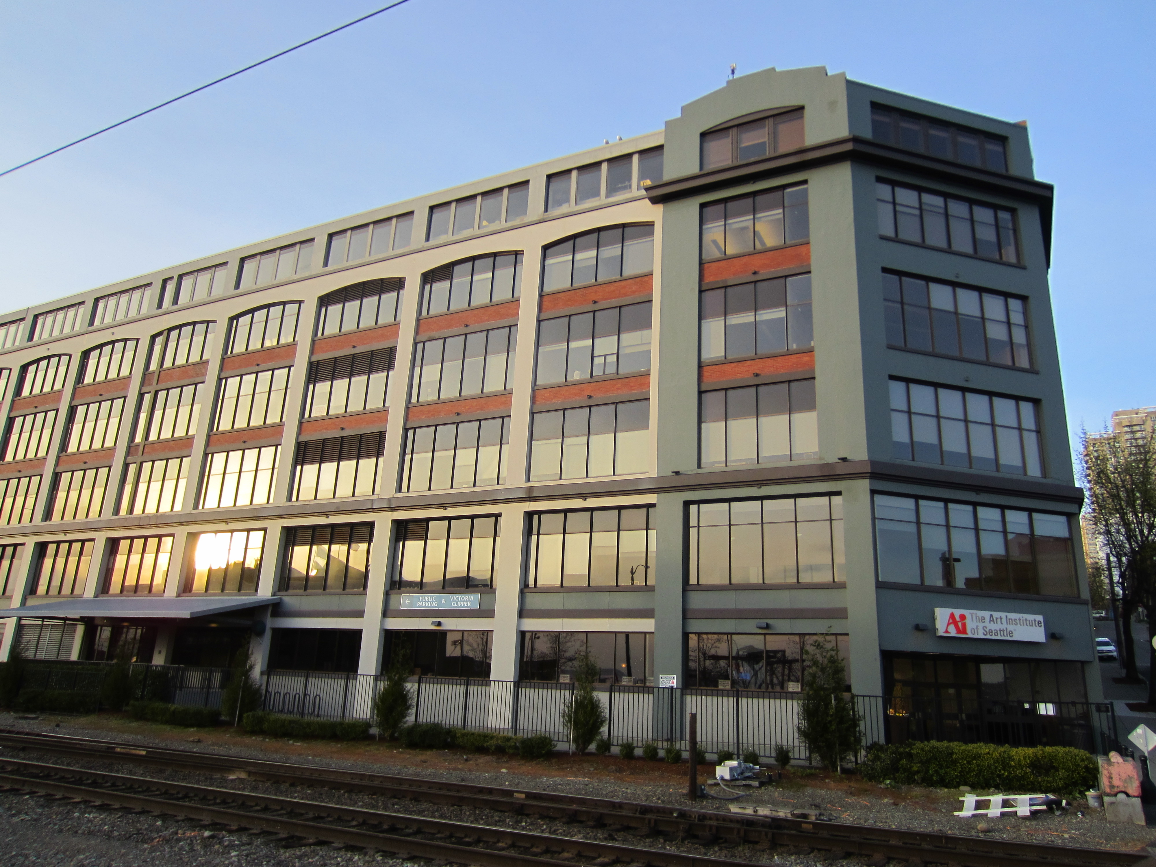 The Art Institute of Seattle in April 2012